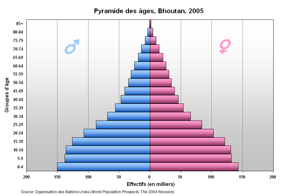 Bhutan Population pyramid, 2005